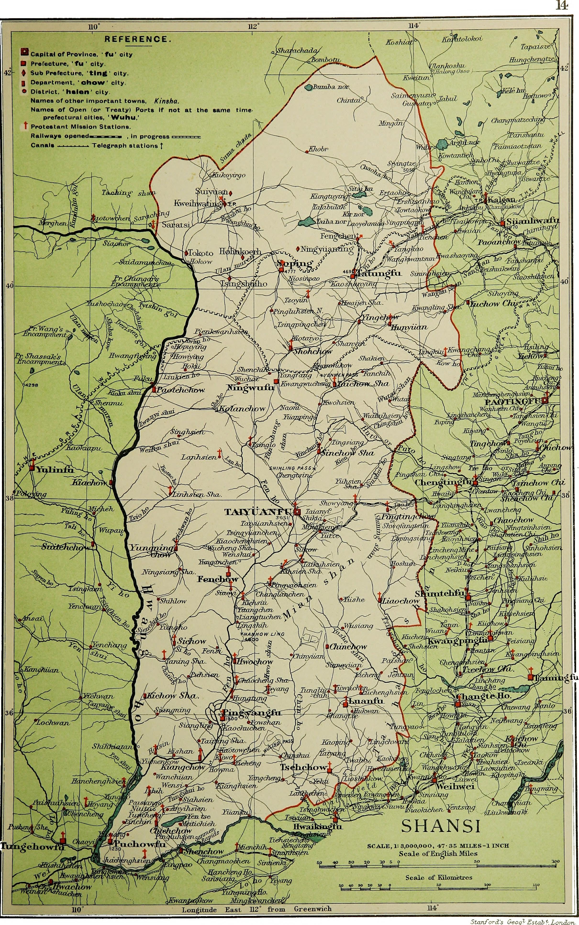 Complete atlas of China : containing separate maps of the eighteen provinces of China proper ... and of the four great dependencies ... , p.46